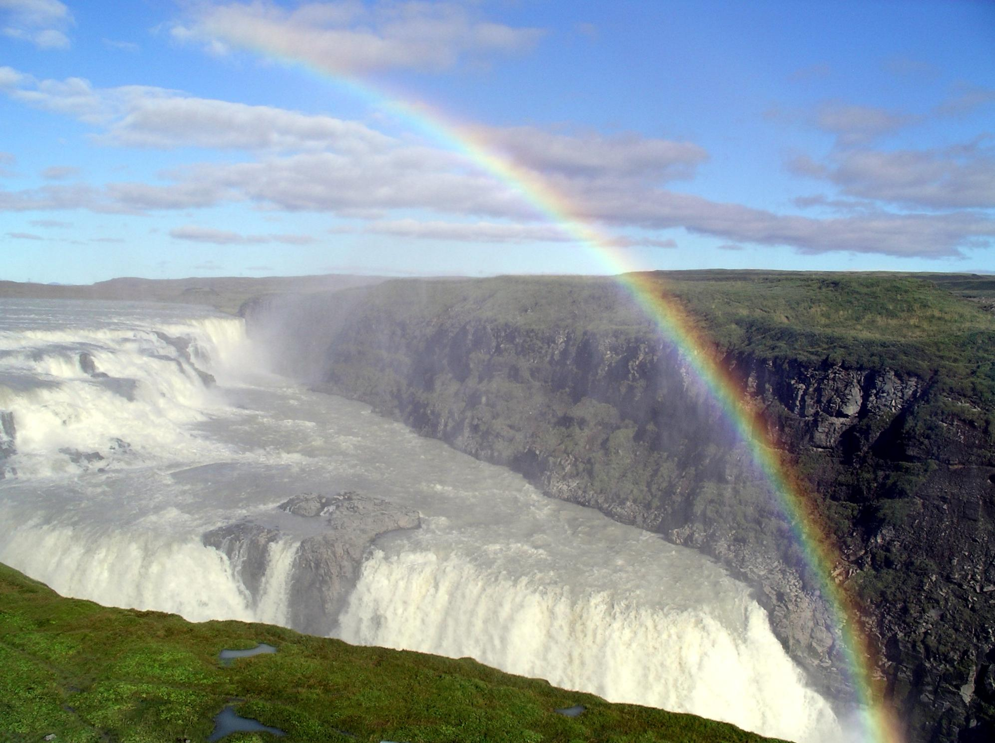 Gullfoss waterfall (Iceland)